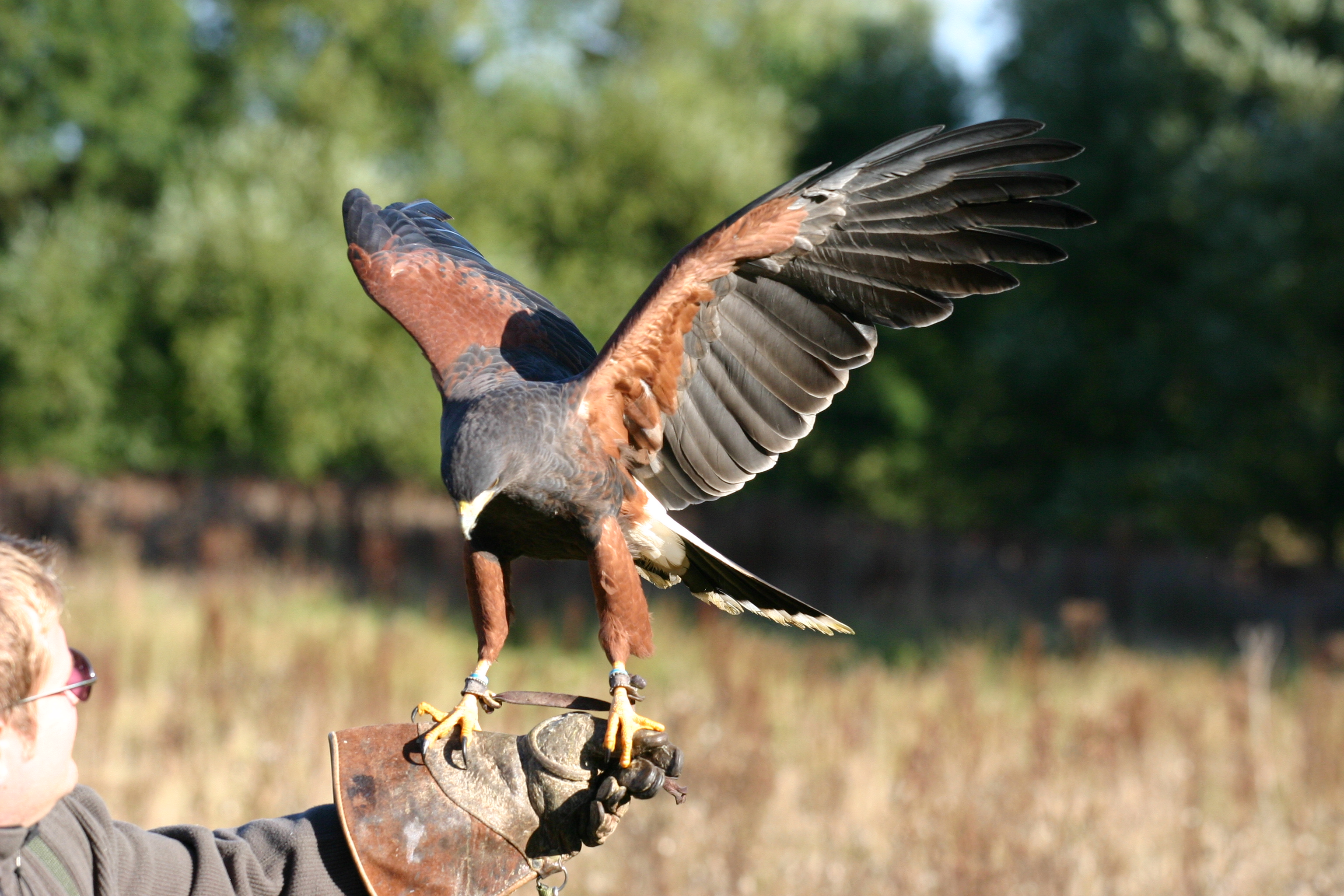 A six-year-old female Harris' Hawk (Parabuteo unicinctus)